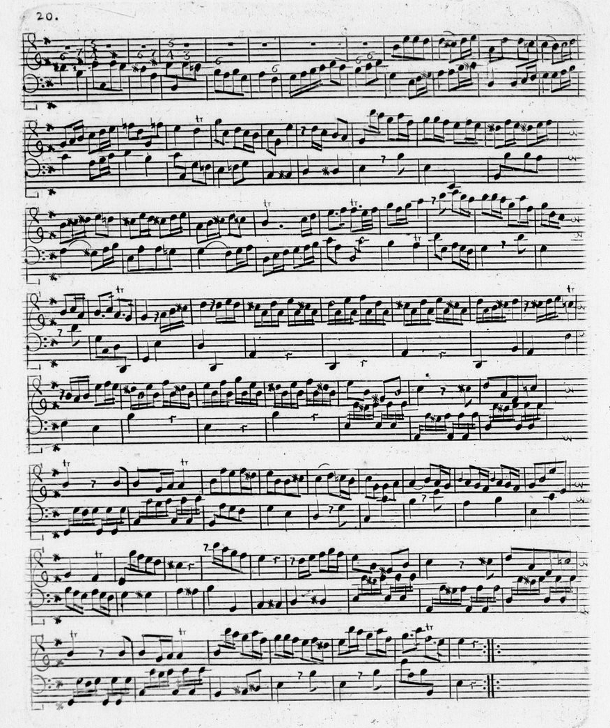 Harpsichord part, second half of second movement of 4th concerto in E minor for transverse flute and harpsichord, TWV 42:e3, from Six Concerts et Six Suites by Georg Philipp Telemann, engraved by Telemann in Hamburg. Originally composed 1715–1720.